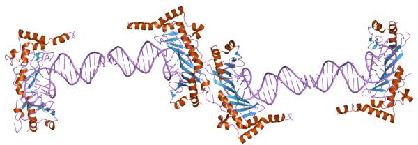 Cartoon representation of the molecular structure of protein registered with 1ngm code.